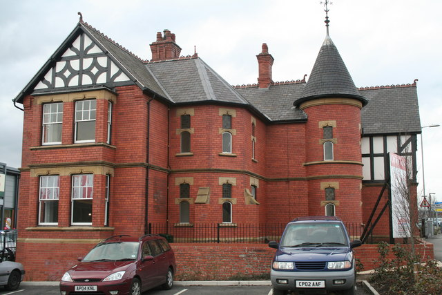 The original Wrexham Lager Brewery All that remains of the original World Famous home of Wrexham Lager Pilsener Beer, which later became known as Skol. Part of the site which is now another retail park.